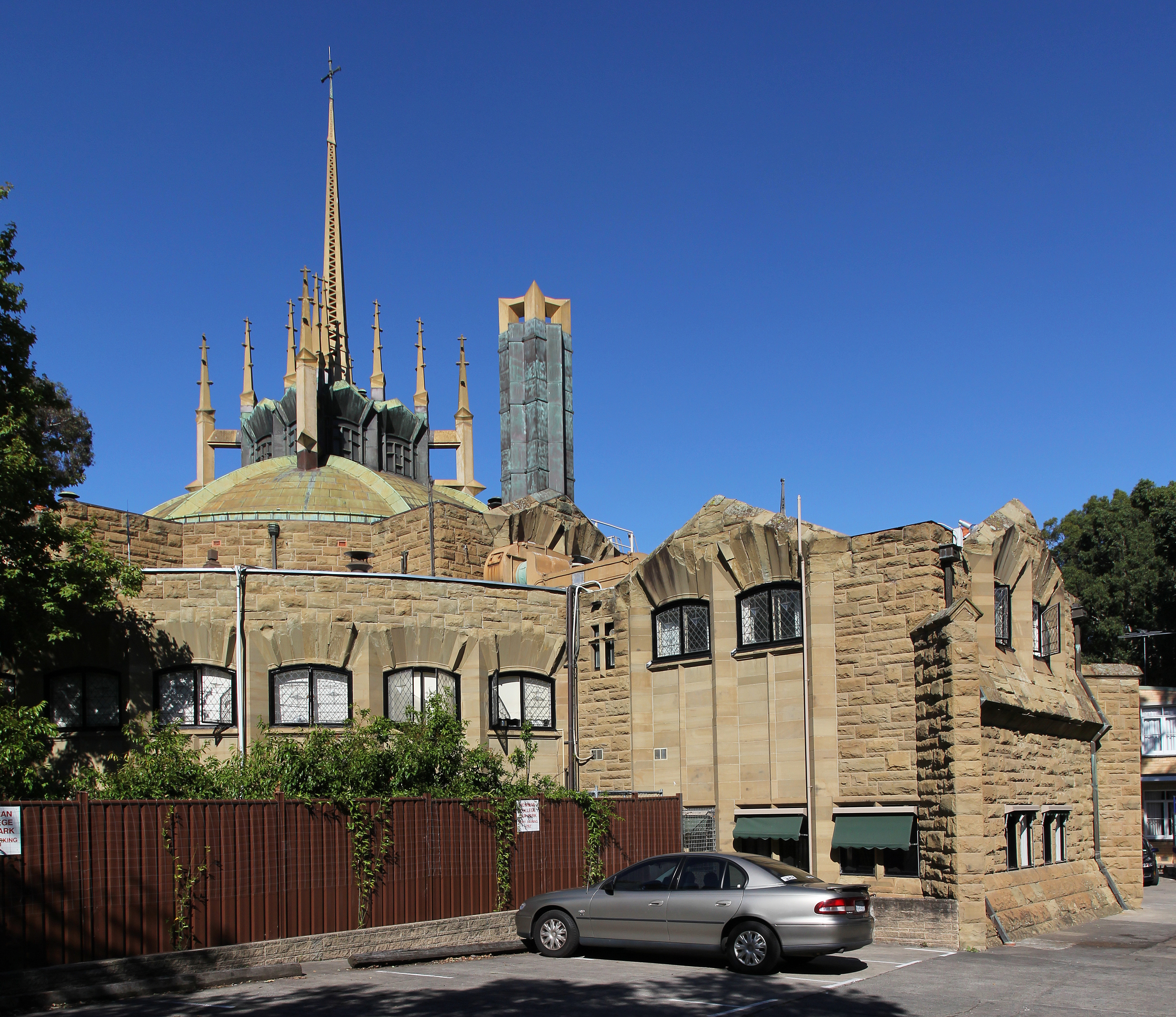 The dome of Newman College (built 1916-1918) by renowned architect Walter Burley Griffin.